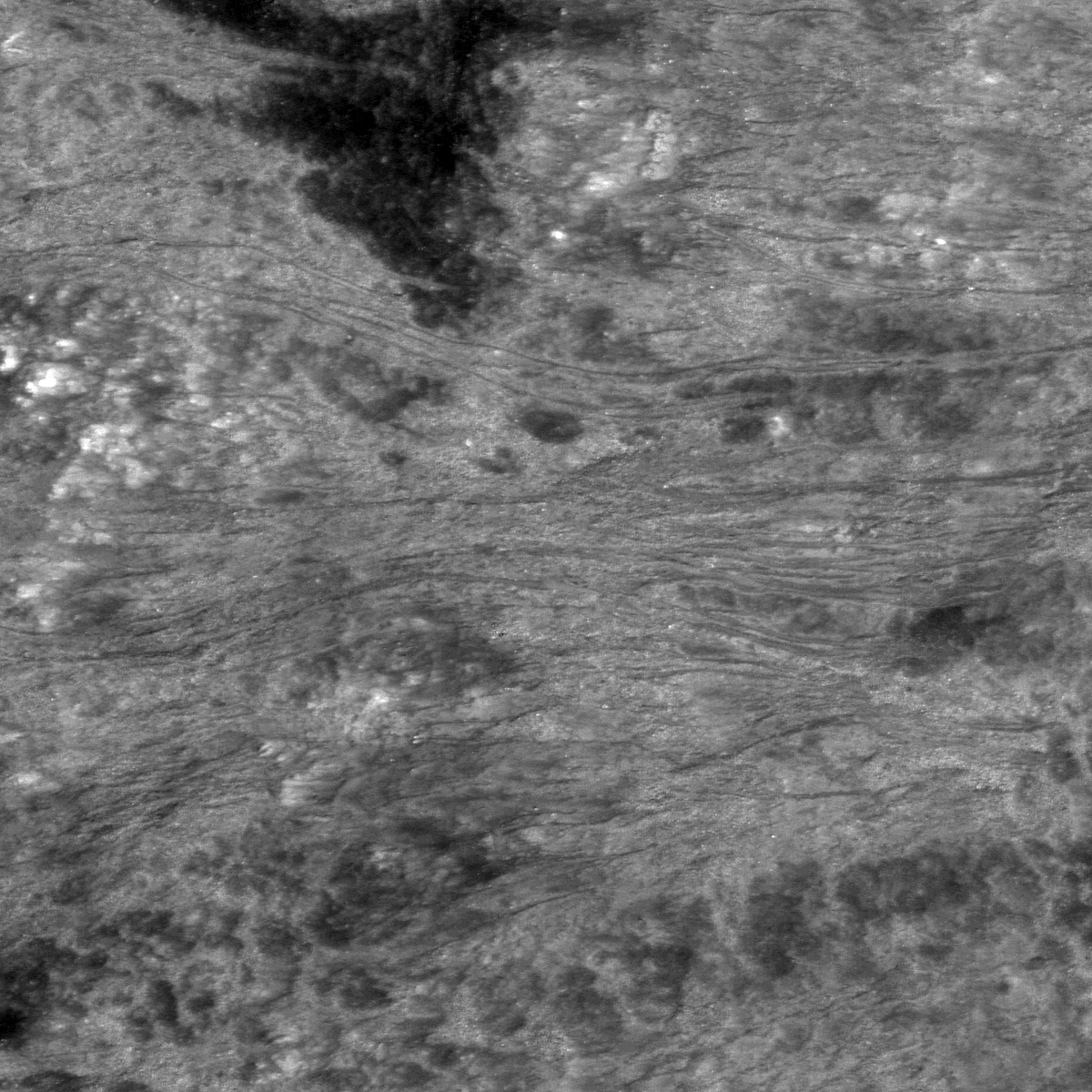 Western slope of Fabbroni crater cavity. Image width is 1200 m, downslope is to the left, NAC M188050156R [NASA/GSFC/Arizona State University].